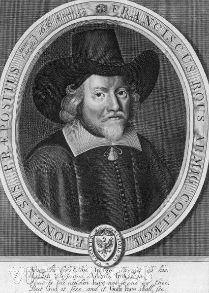 Portrait of Francis Rous (1579-1659)